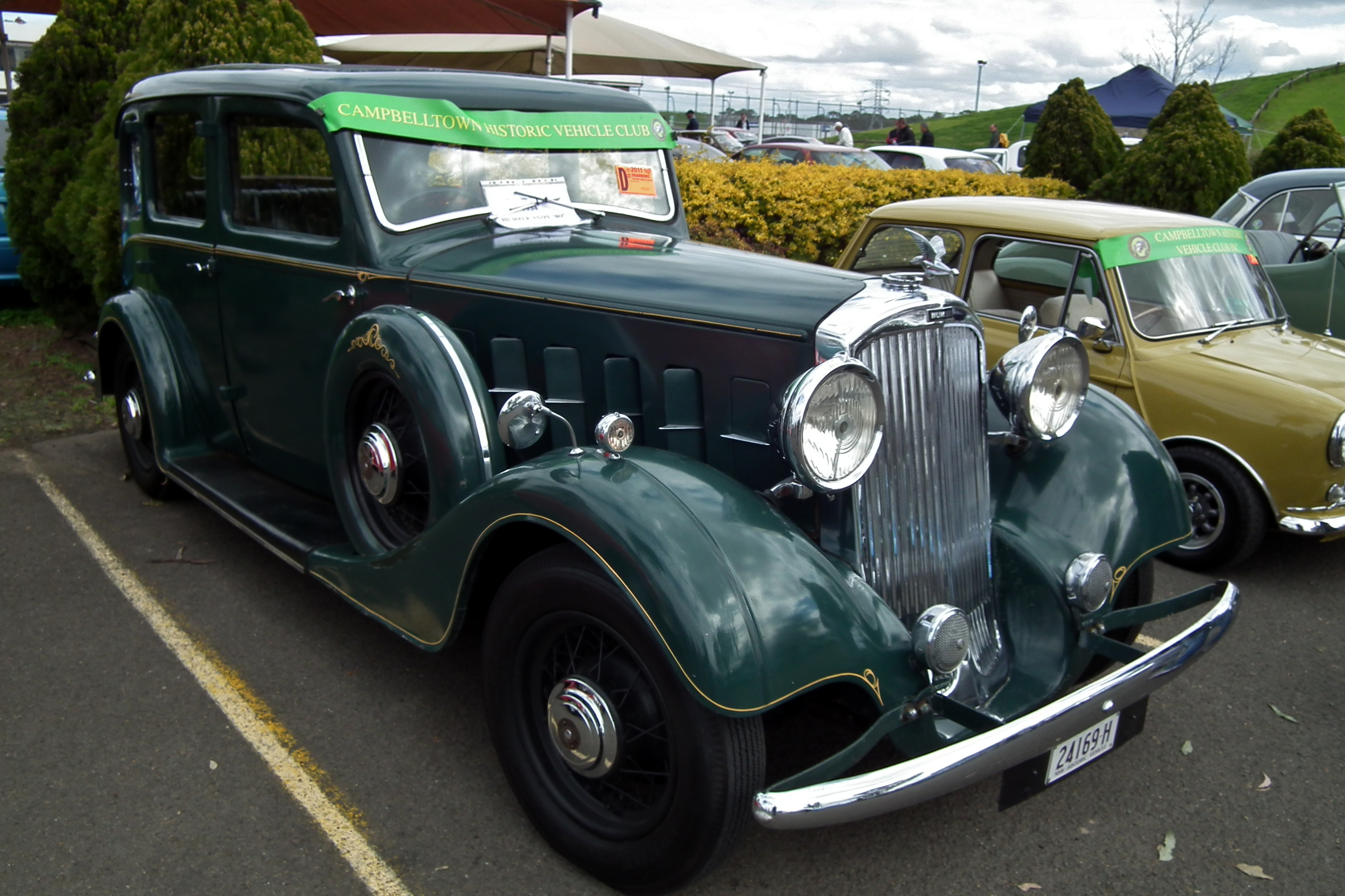 1934 Humber Snipe 80 sedan.Taken at Shannon's Eastern Creek Classic 2011, held at Eastern Creek Raceway Sydney.